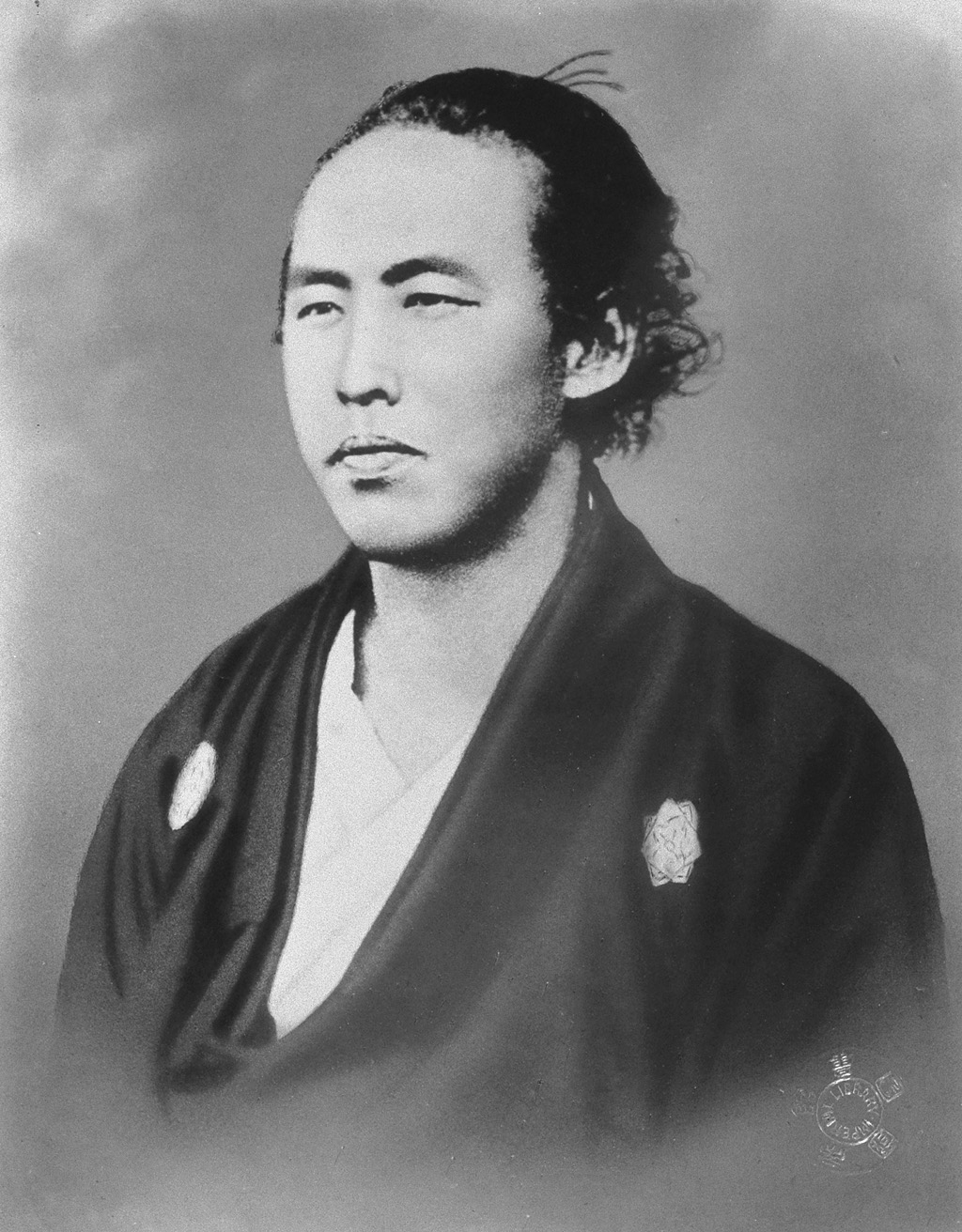 Portrait of Sakamoto Ryoma (坂本竜馬, 1835 – 1867)